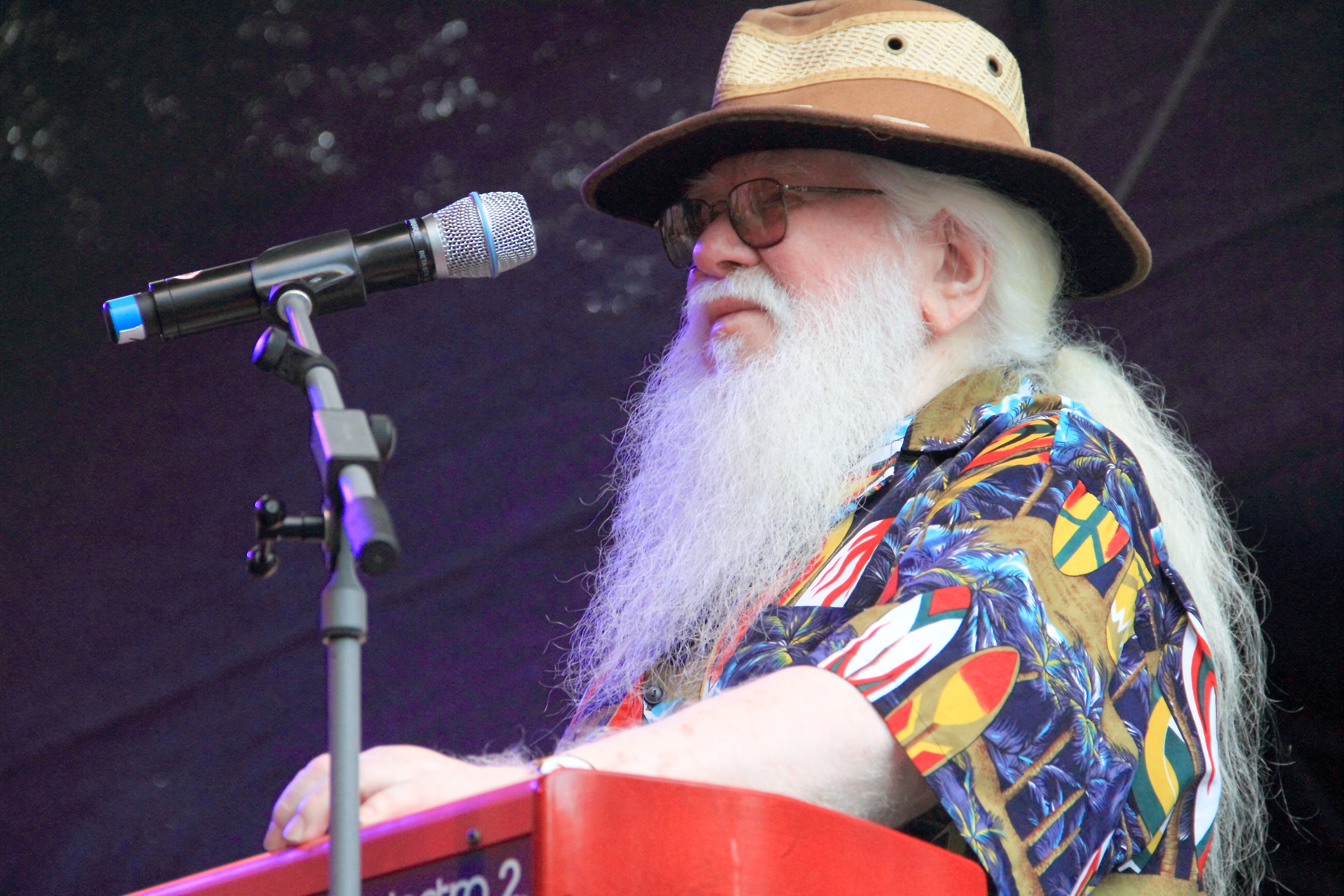 Hermeto Pascoal at Rudolstadt-Festival 2016.